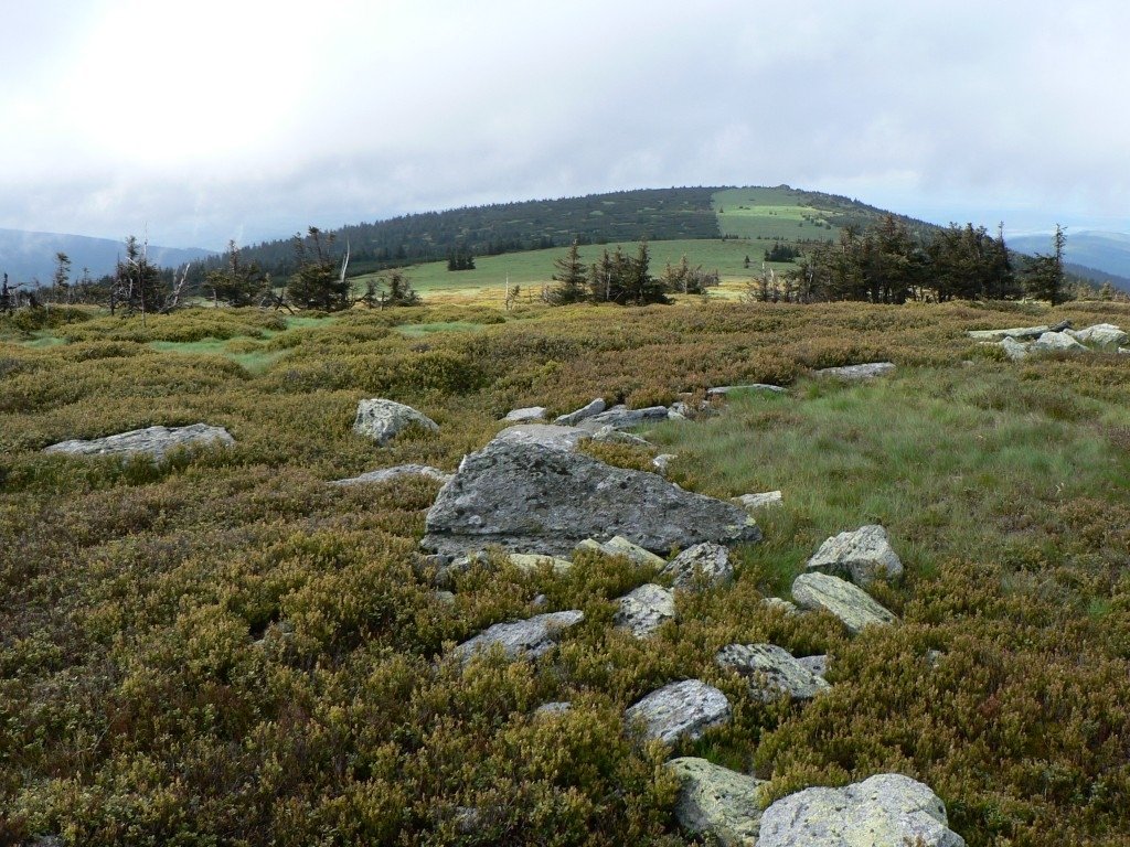 Top of Bridlicna mountain, Hruby Jesenik Mts, Czech republic.